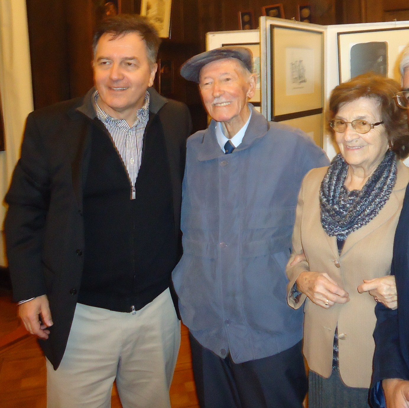 Roberto Ampuero and Parents